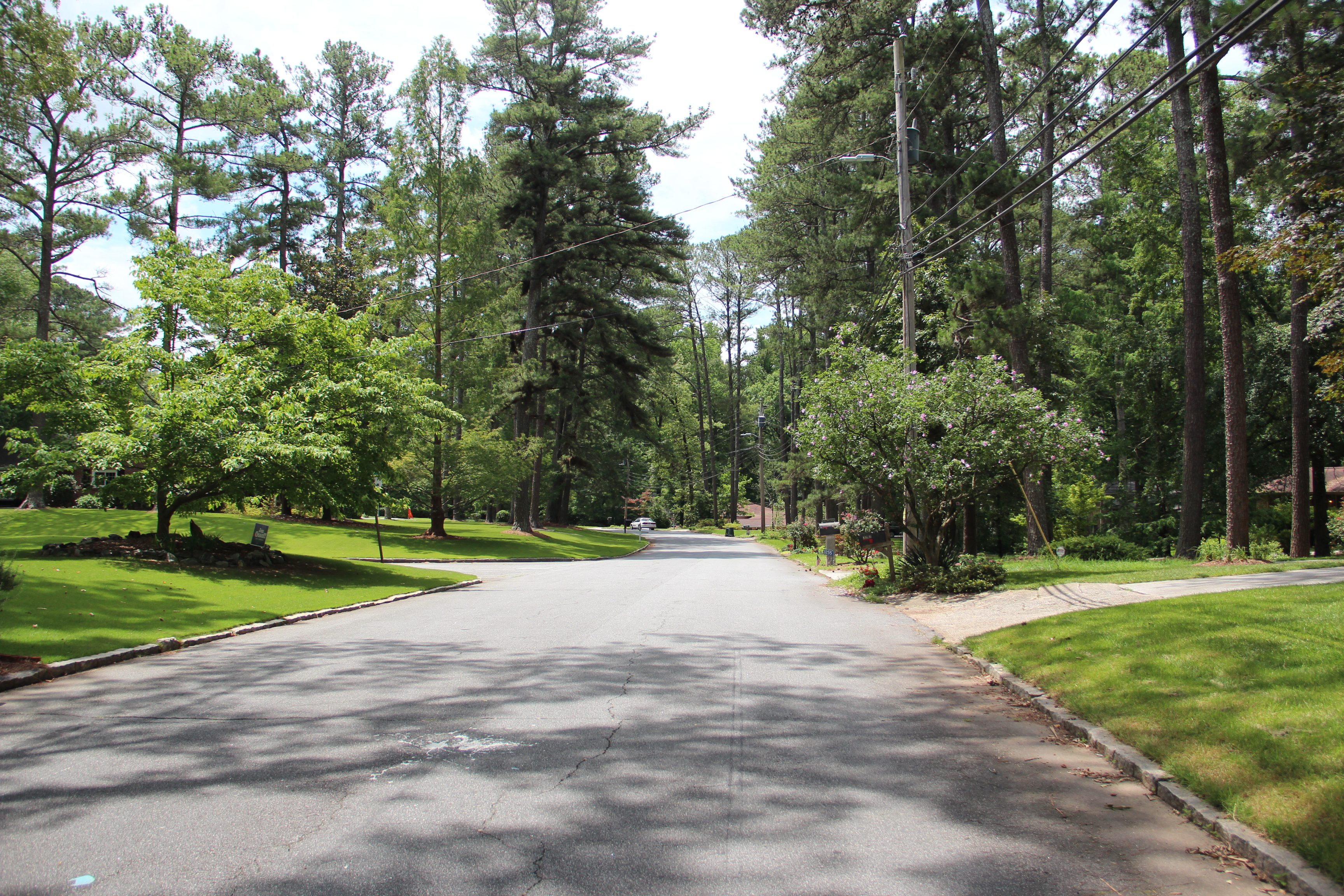 Embry Circle, Embry Hills, Georgia